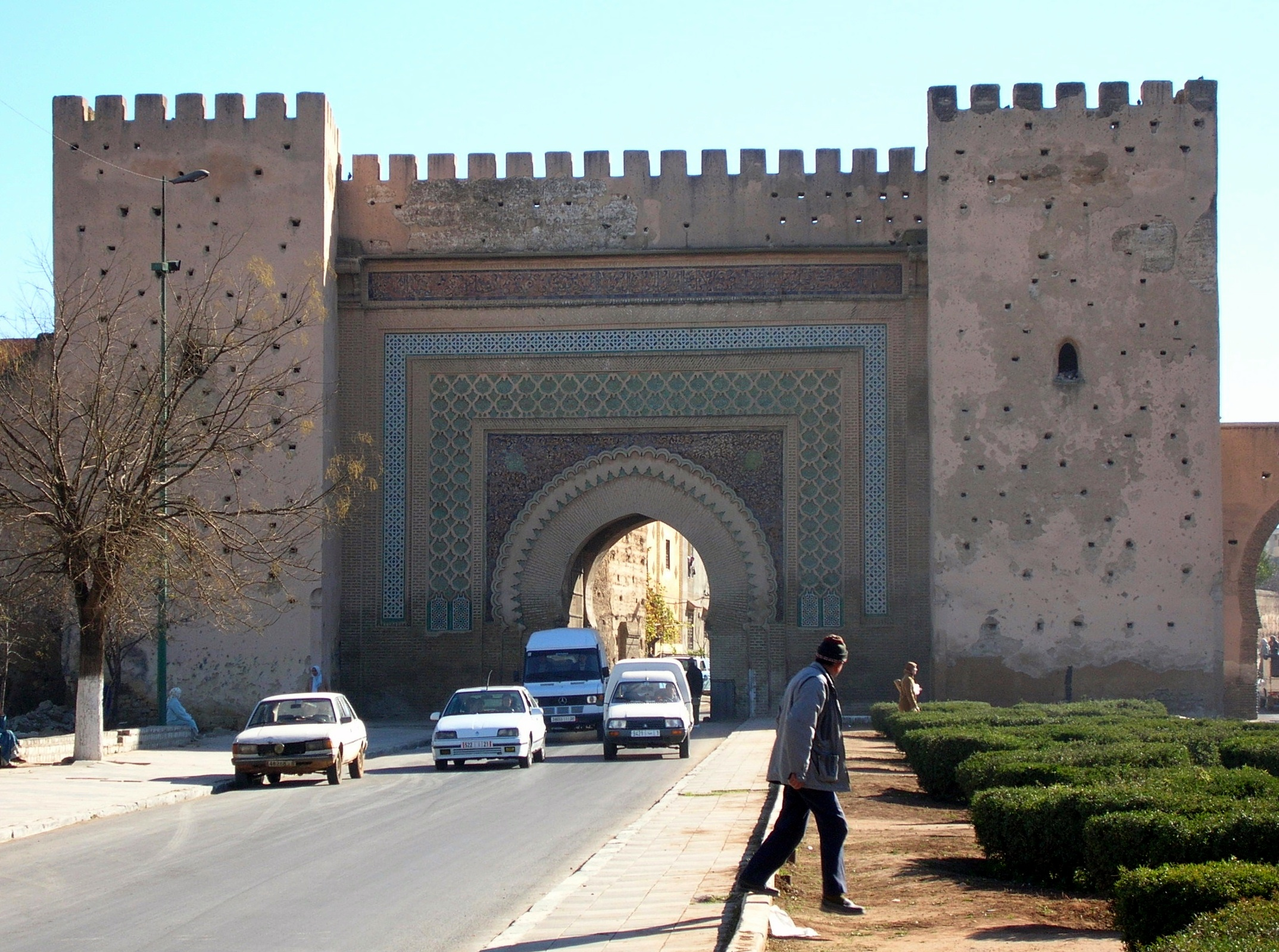 Bab El-Khemis, Meknes, Morocco